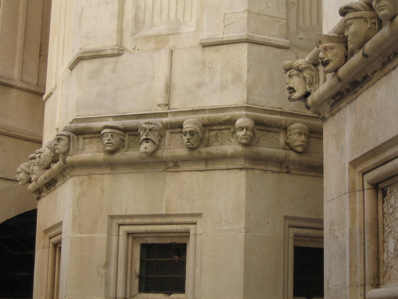 Faces on Saint Jacob's cathedral